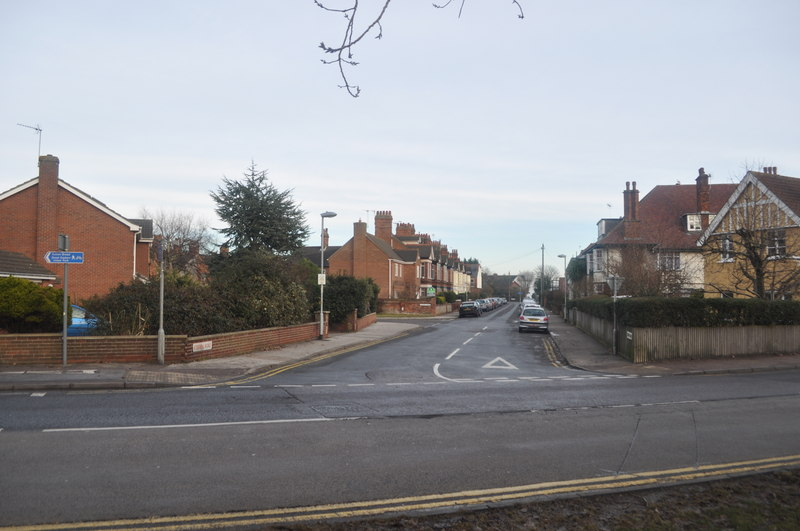 Station Road - North Lowestoft Near here was the ex Lowestoft North station, now demolished. For several pictures see Malcolm White's Rails to the Coast book.